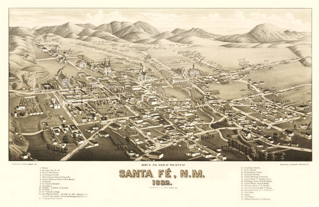 An aerial map of Santa Fe, New Mexico during the Railroad era in 1882.